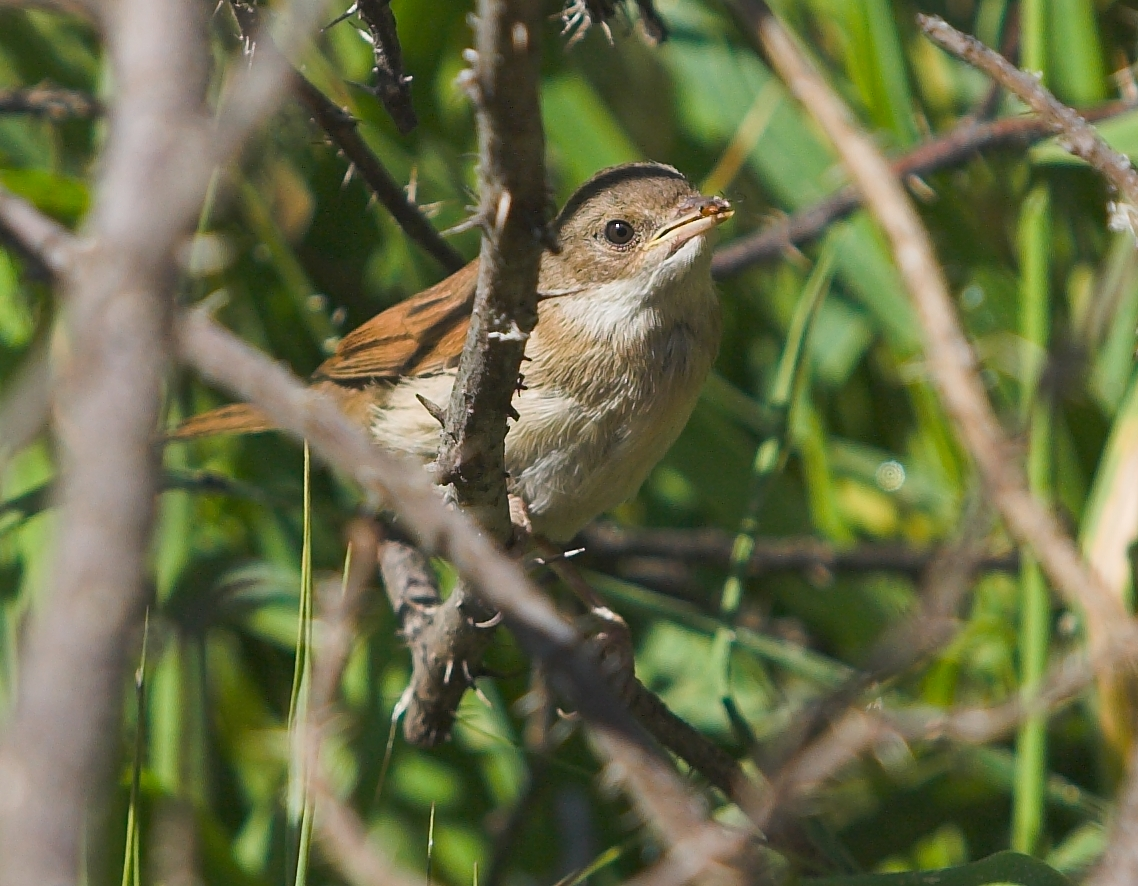 Sylvia communis ("Whitethroat") eating an insect.